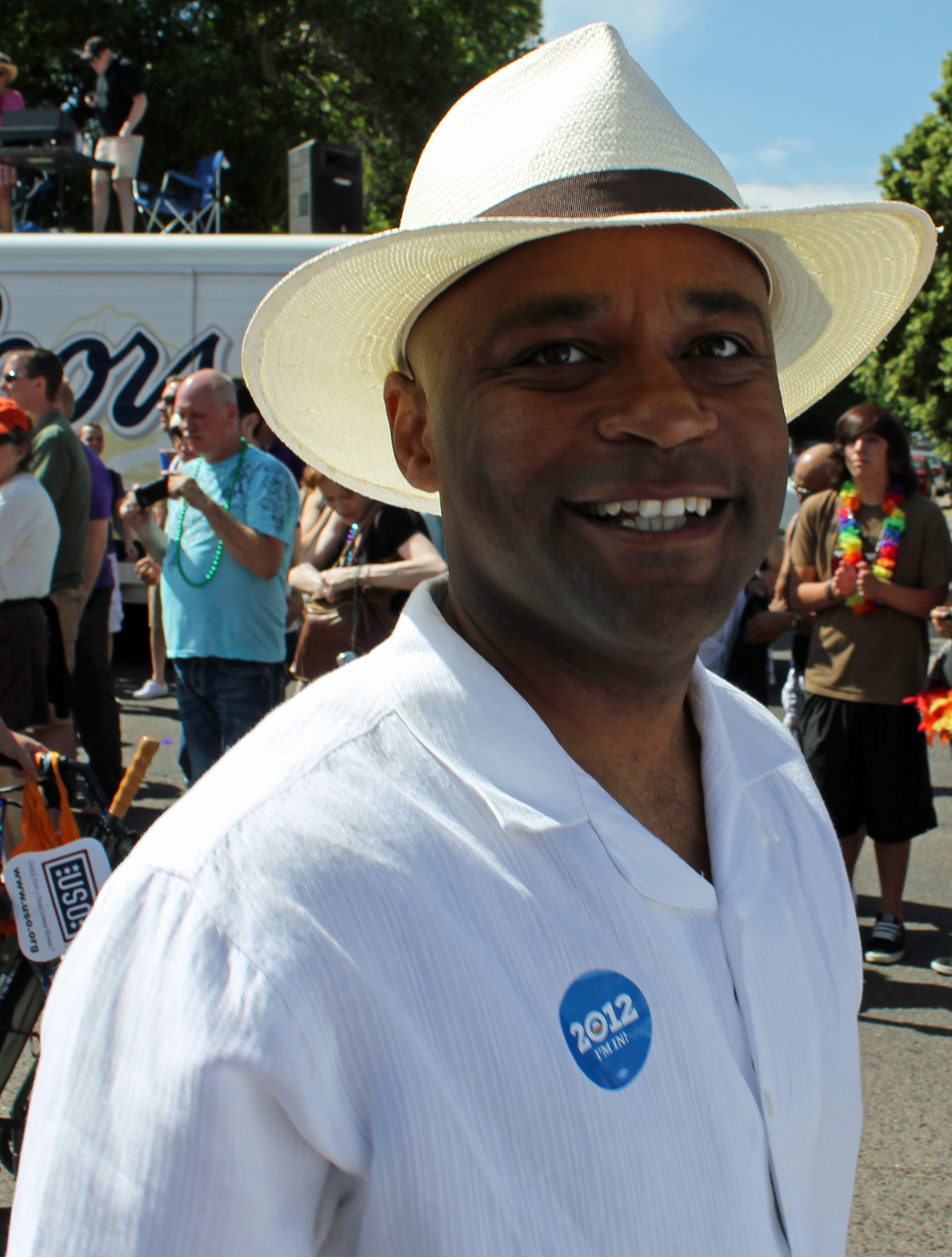 Michael Hancock, the mayor-elect of Denver, Colorado.